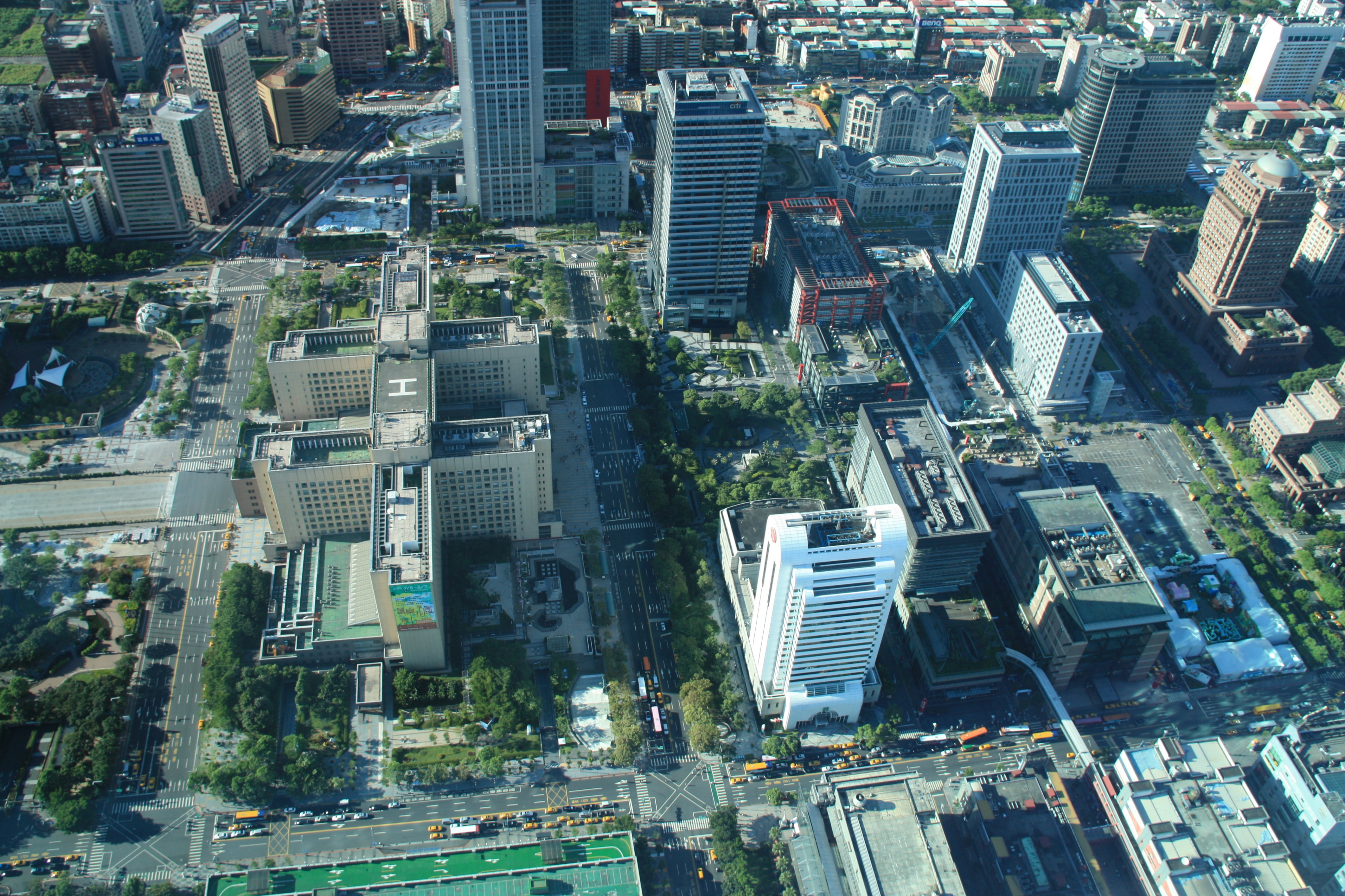 Táiběi Xìnyì District Táiběi 101 Observation Platform View to North Roads from West to East: SōngShòu Rd (bottom), RénÀi Rd (close, left), SōngGāo Rd (center), ZhōngXiào East Rd (far) Roads from North to South: JīLóng Rd (left), SōngZhì Rd (center), SōngRén Rd (right) Taipei City Hall